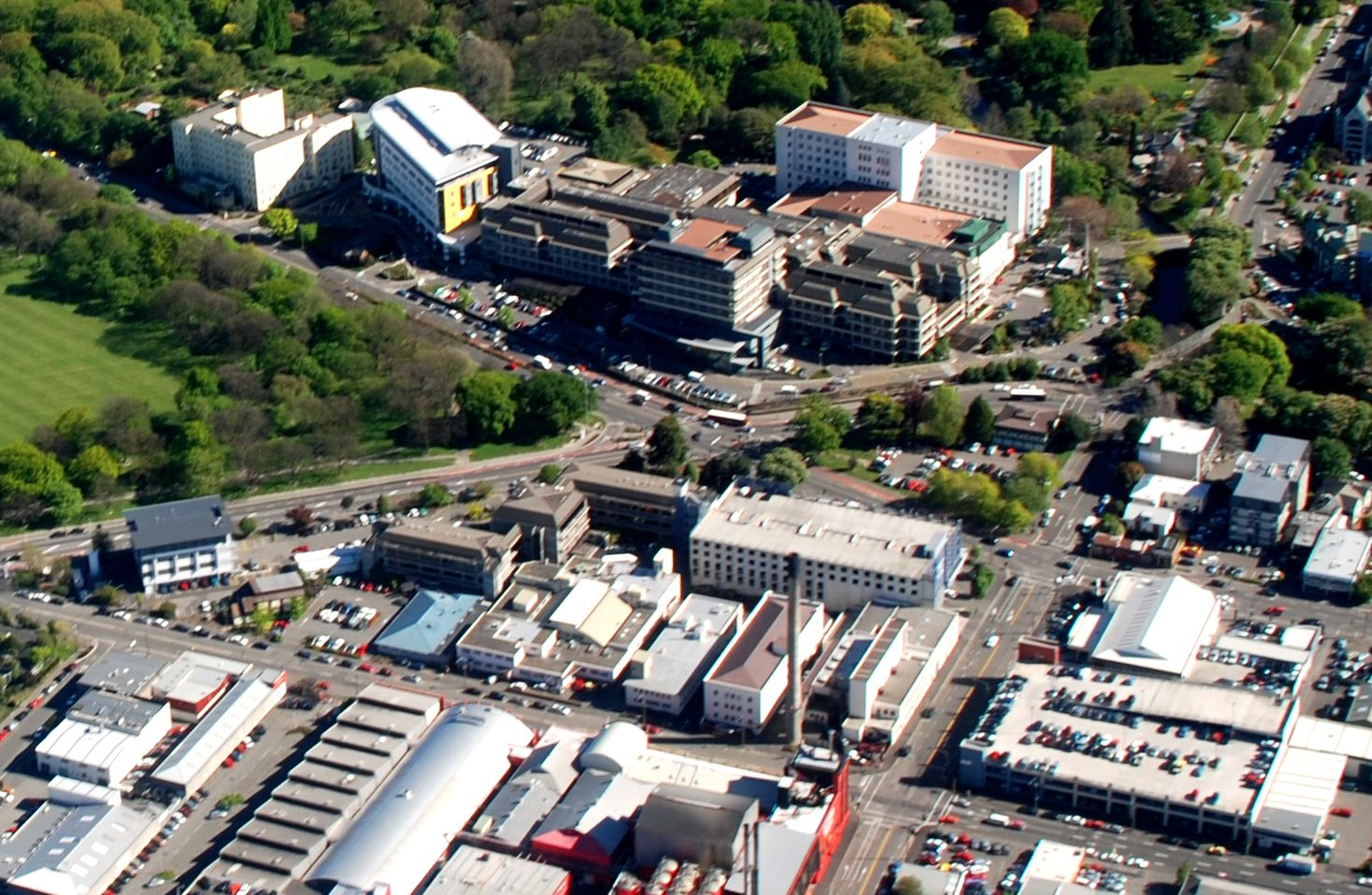 Cropped image to show Christchurch Hospital, Canterbury, New Zealand, 24 October 2007. Photo taken en route Wellington to Christchurch.